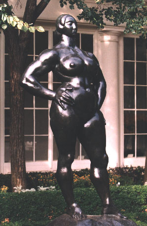 Statue "Standing Woman" by Gaston Lachaise, shown here at the White House during the Twentieth Century American Sculpture exhibit. On loan from the Milwaukee Art Museum.